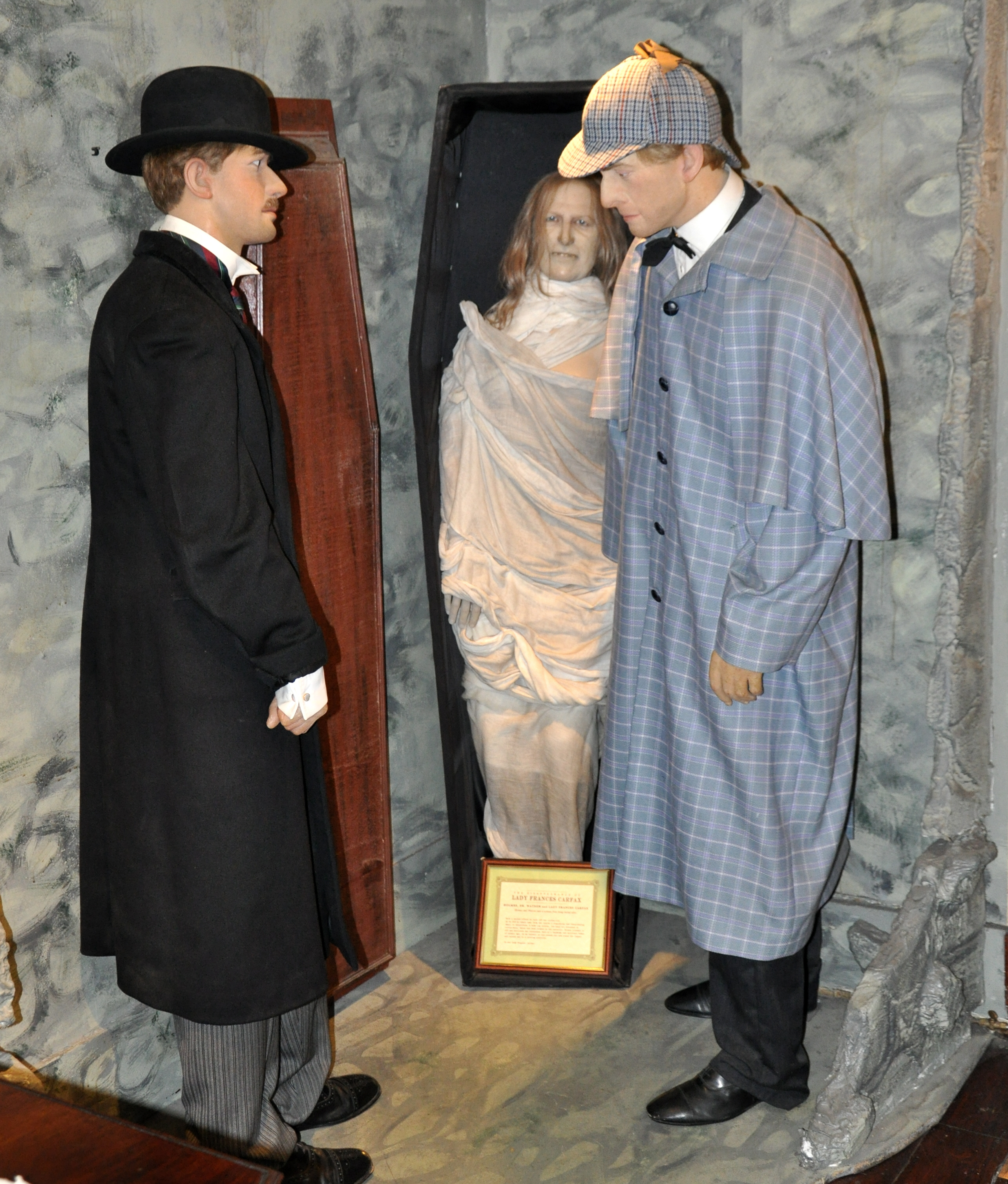 Sherlock Holmes Museum, Baker Street, London Figures illustrating "The Disappearance of Lady Frances Carfax"